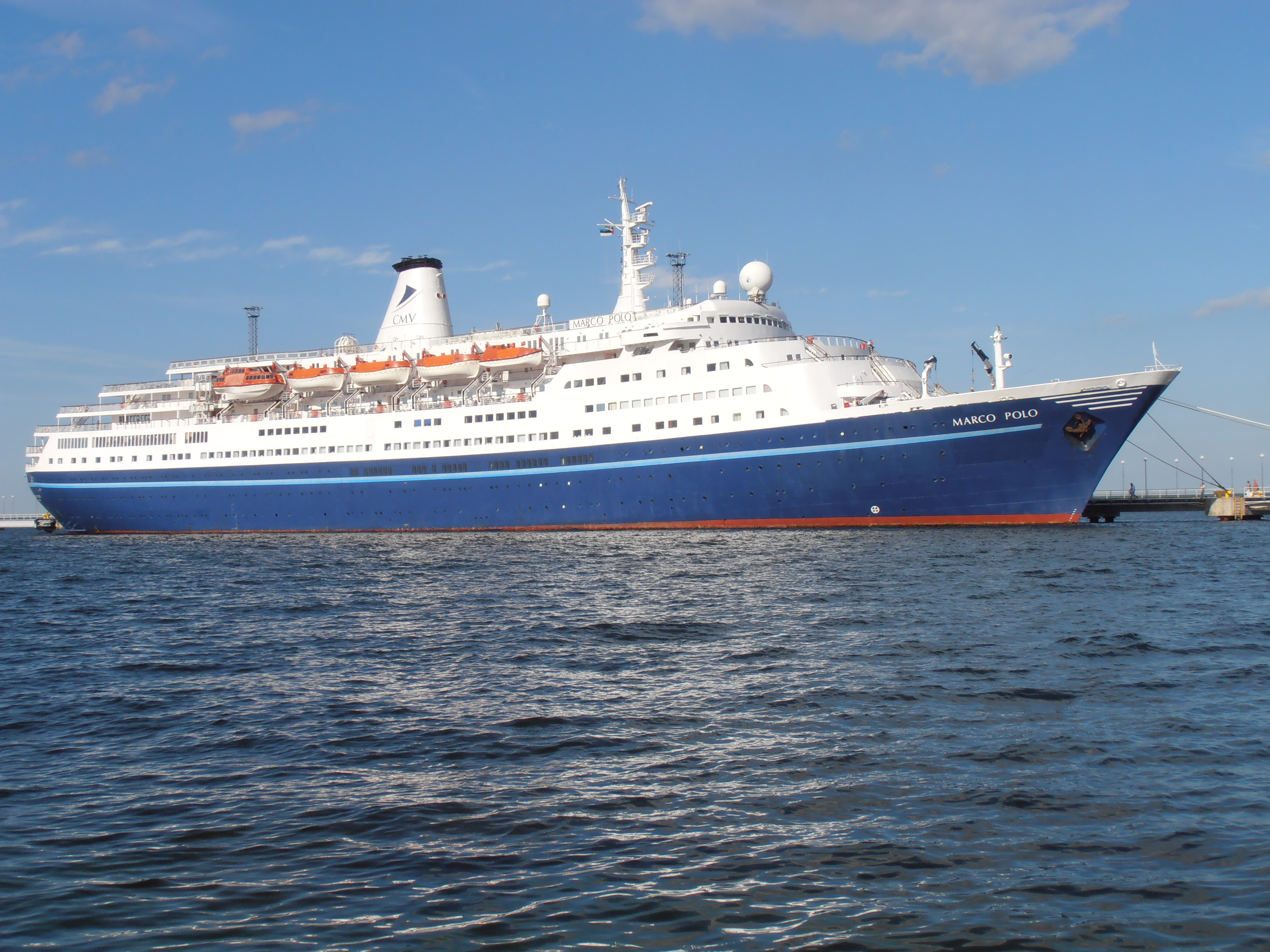 Cruise ship Marco Polo in Port of Tallinn, 2 August 2012 ( - former ocean liner Aleksandr Pushkin for the Montreal–Leningrad line)